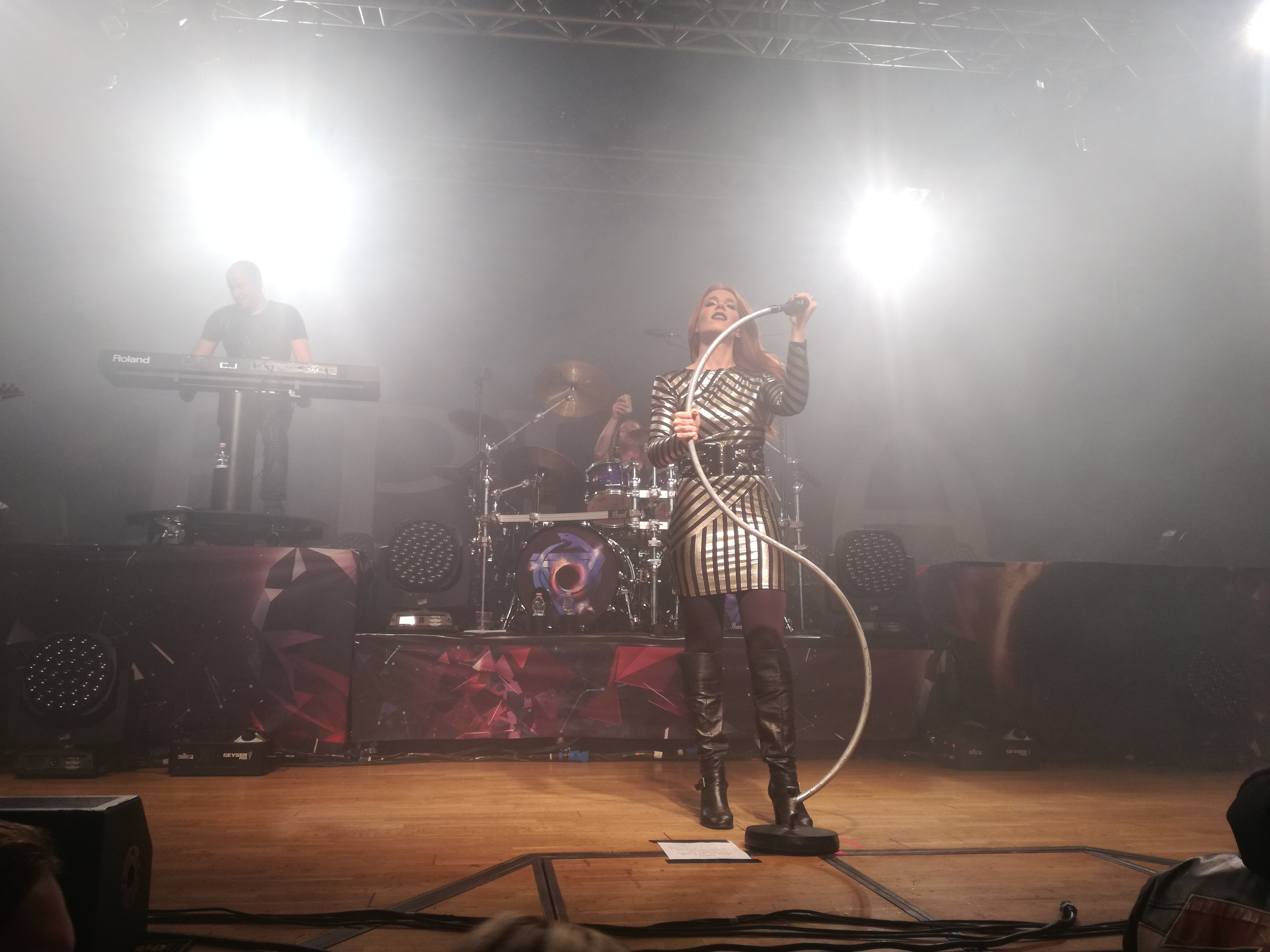 Epica live at Live Club, Trezzo sull'Adda, January 18, 2017